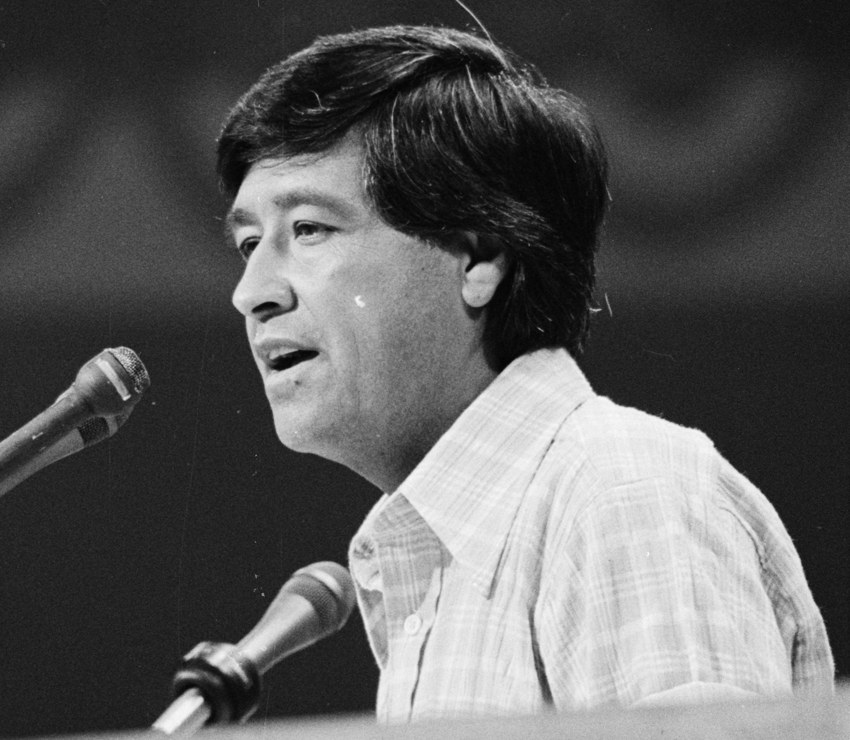 Democratic Convention in New York City, July 14, 1976. Cesar Chavez at podium, nominating Gov. Brown.